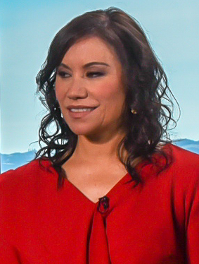 Stacey Morrison, in Gisborne on 5 October 2019, during the Tuia 250 Pohiri Te Wai-o-Hiharore.